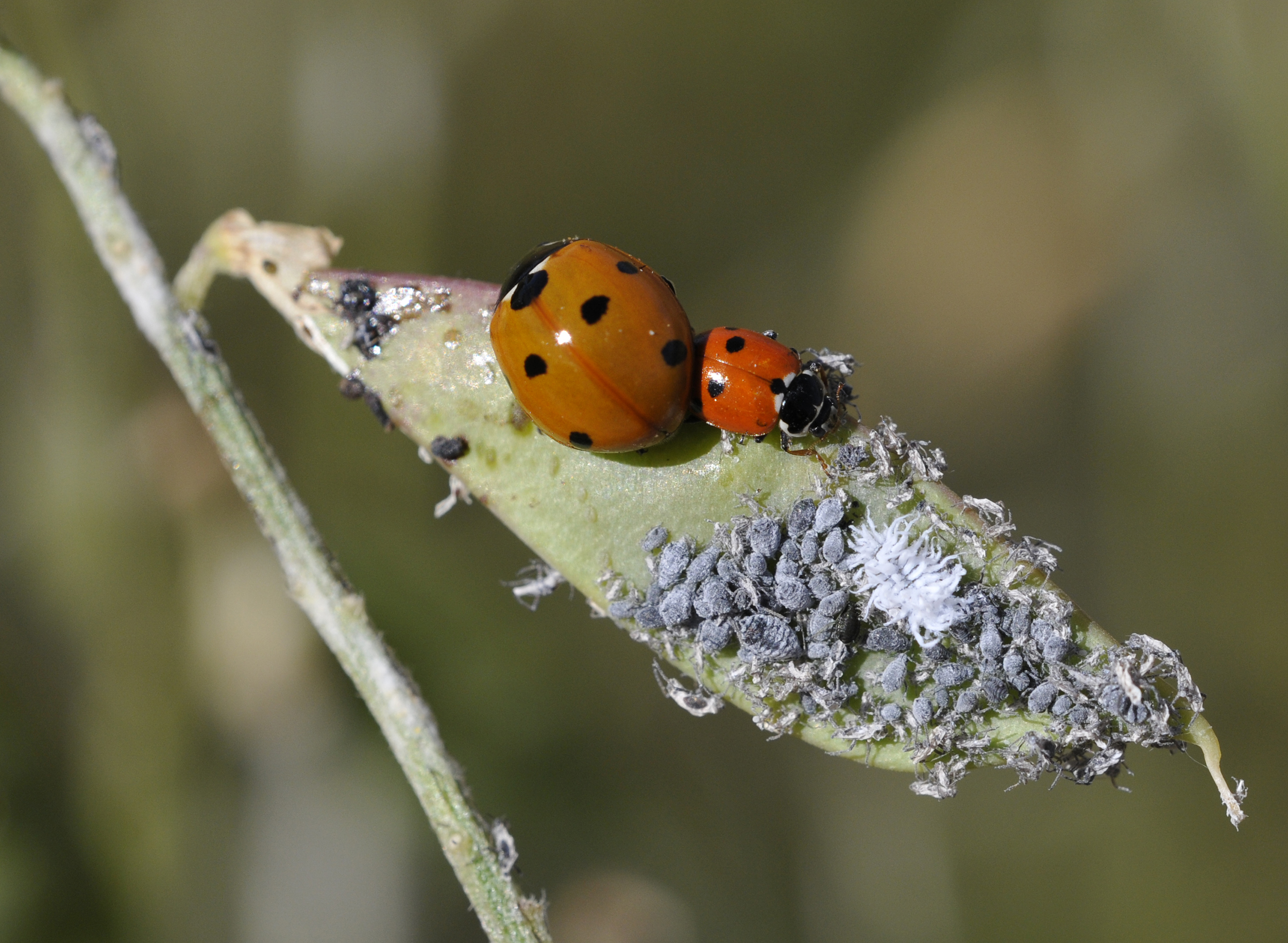 Two different sized Seven Spotted-Ladybug (Coccinella septempunctata) eating mealybugs/aphids on a bean of Vicia sp. Taşkent - Konya, Turkey.